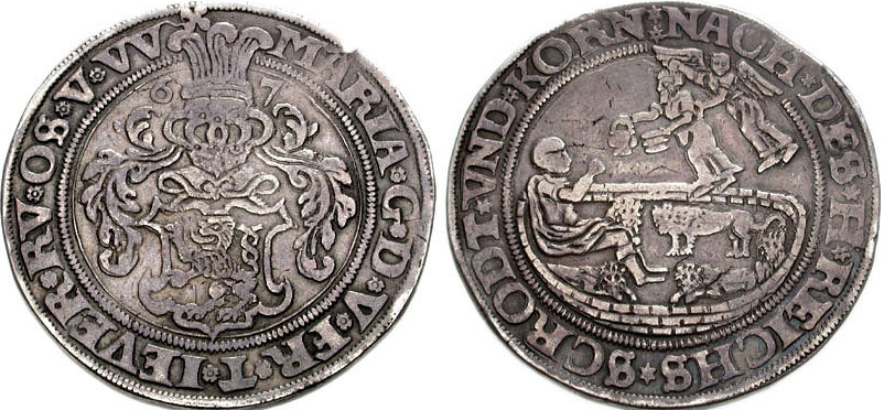 GERMANY, Jever (Herrschaft). Maria. 1536-1575. AR “Danielstaler” (41mm, 28.99 g, 6h). Dirk Iden, mintmaster. Dated 1567. Helmeted lion coat of arms, 6-7 across / Daniel seated right in lion’s den; above, angel flying left carrying prophet Habakuk, who holds food and drink. Merzdorf 46; Davenport 9340. VF, toned. Rare. This “Danielstaler” depicts the Biblical story of Daniel, who was cast into a lion’s den by King Darius of Persia (Daniel 6:1-23). According to the story, Daniel was a skilled and distinguished administrator of Darius’ kingdom. Daniel’s colleagues (also administrators) became jealous of his growing influence. When they discovered that Darius was going to promote Daniel to the position of head administrator, they conspired to prevent the appointment. Through manipulation, they convinced Darius to issue an edict that forbade the worship of any god or man other than the king. As an exile from Judaea, Daniel would predictably fall afoul of this new law, as he prayed to God three times daily. In keeping with their plan, the conspiring administrators reported Daniel to King Darius, who meted out the punishment prescribed by the edict: a night spent in the lion’s den. Daniel was sealed in the den overnight and left to fight off the hungry lions. When Darius went to the den the next morning, he found Daniel had survived without a scratch. Daniel reported that, because of his strong faith, God had sent a guardian angel to protect him during the night. The reverse of this coin captures the moment when the angel entered the lion’s den to help Daniel. Daniel in der Löwengrube 781196. Verkauft für $ 895